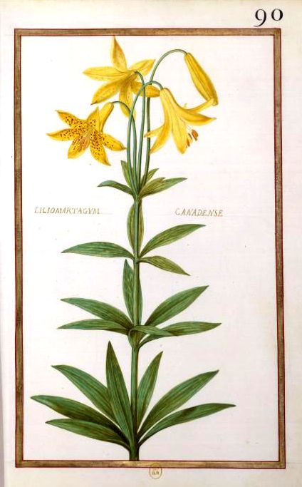 Botanical drawing by Daniel Rabel